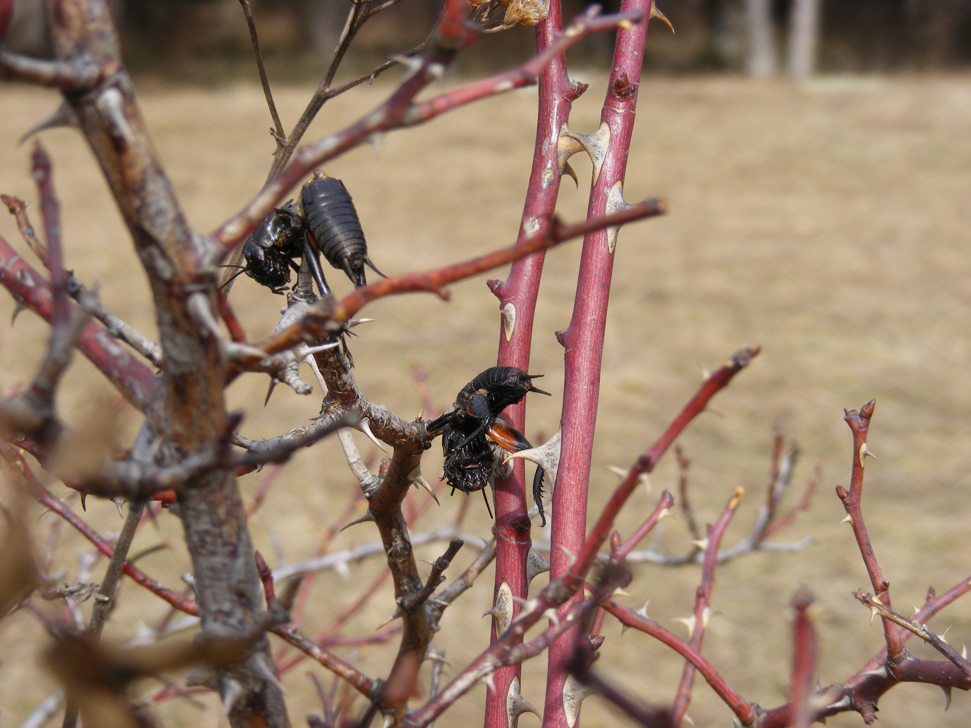 Two cricket, killed by a Rad-backed Shrike, near Csíkszereda (Miercurea-Ciuc)